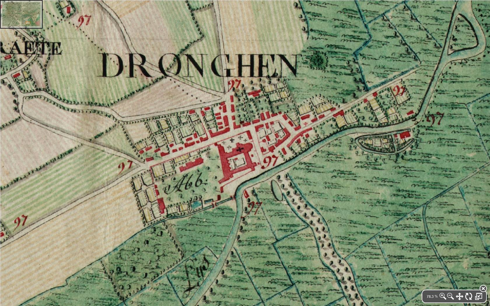 Drongen,_Ghent,_Belgium,_ferrariskaart.jpg